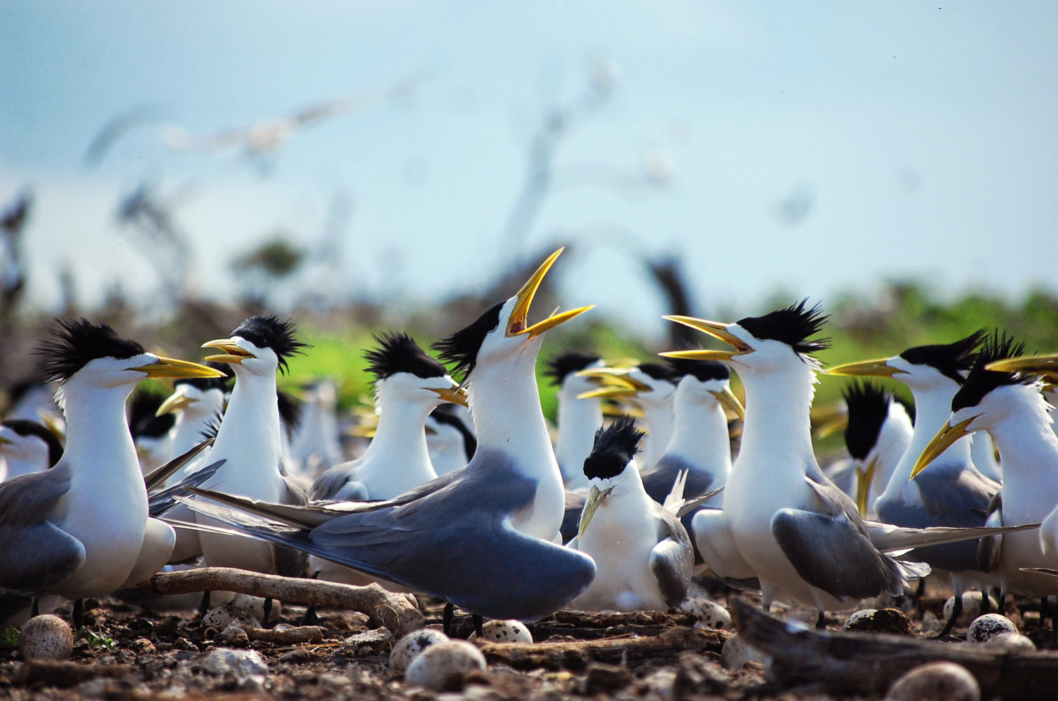 A Greater Crested Tern (Thalasseus bergii) nesting colony on an atoll at the Tubbataha Reef National Park in the Philippines. Mottled-brown eggs are visibly scattered on the ground. Photographed in May 2012 by Gregg Yan.